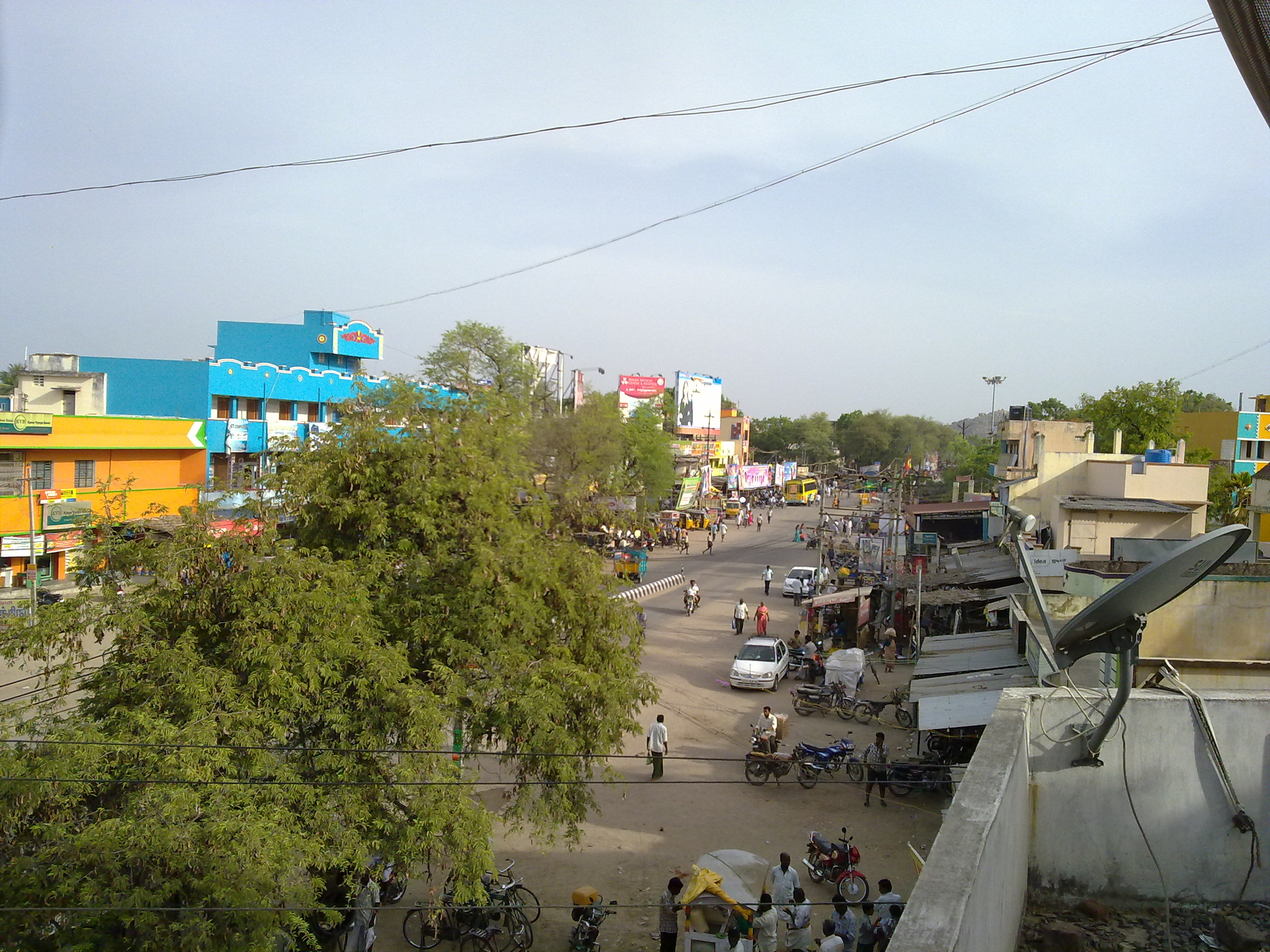 Polur Bustand road